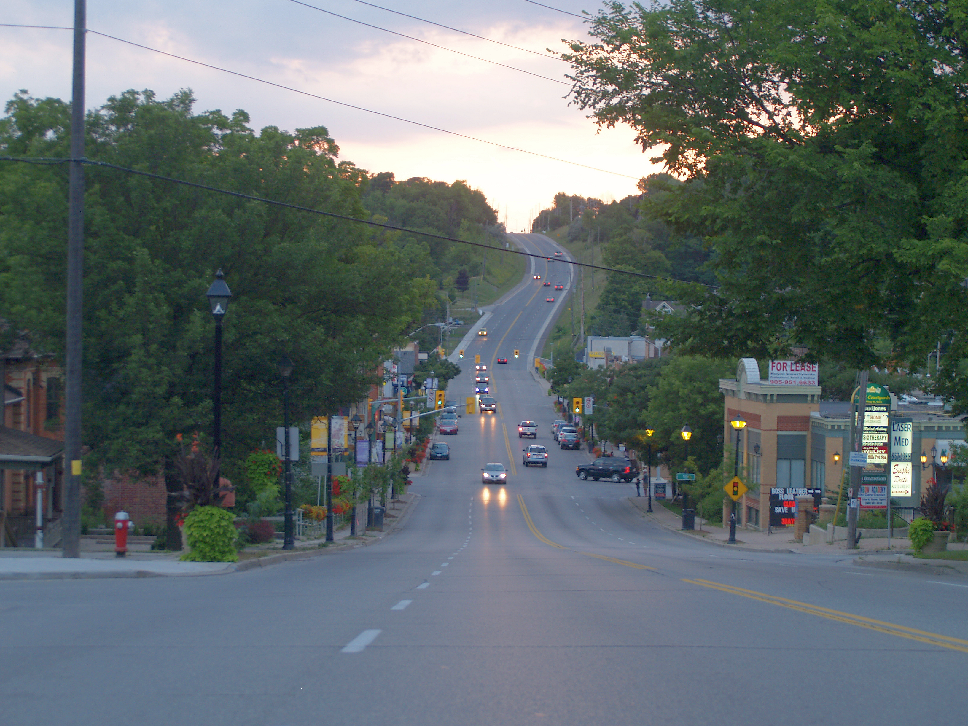 Highway 50 passing through the town of Bolton, Ontario